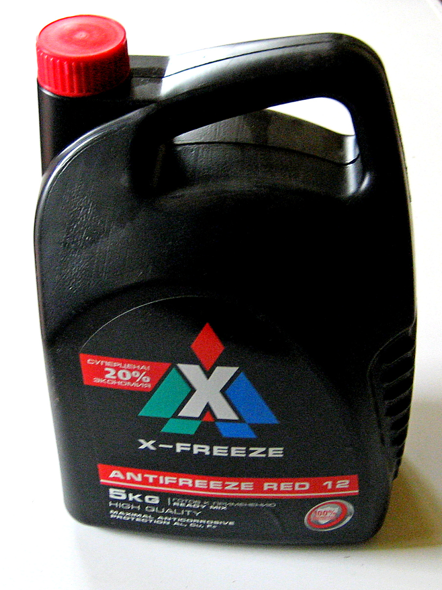 Antifreeze